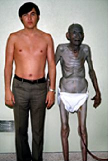 A 92-year-old asymptomatic Caucasian man. Generalized argyria: For many years, this man had used nose drops containing silver. His skin biopsy showed silver deposits in the dermis, confirming the diagnosis of argyria. Although its pigmentary changes are permanent, argyria has no known effect on health.